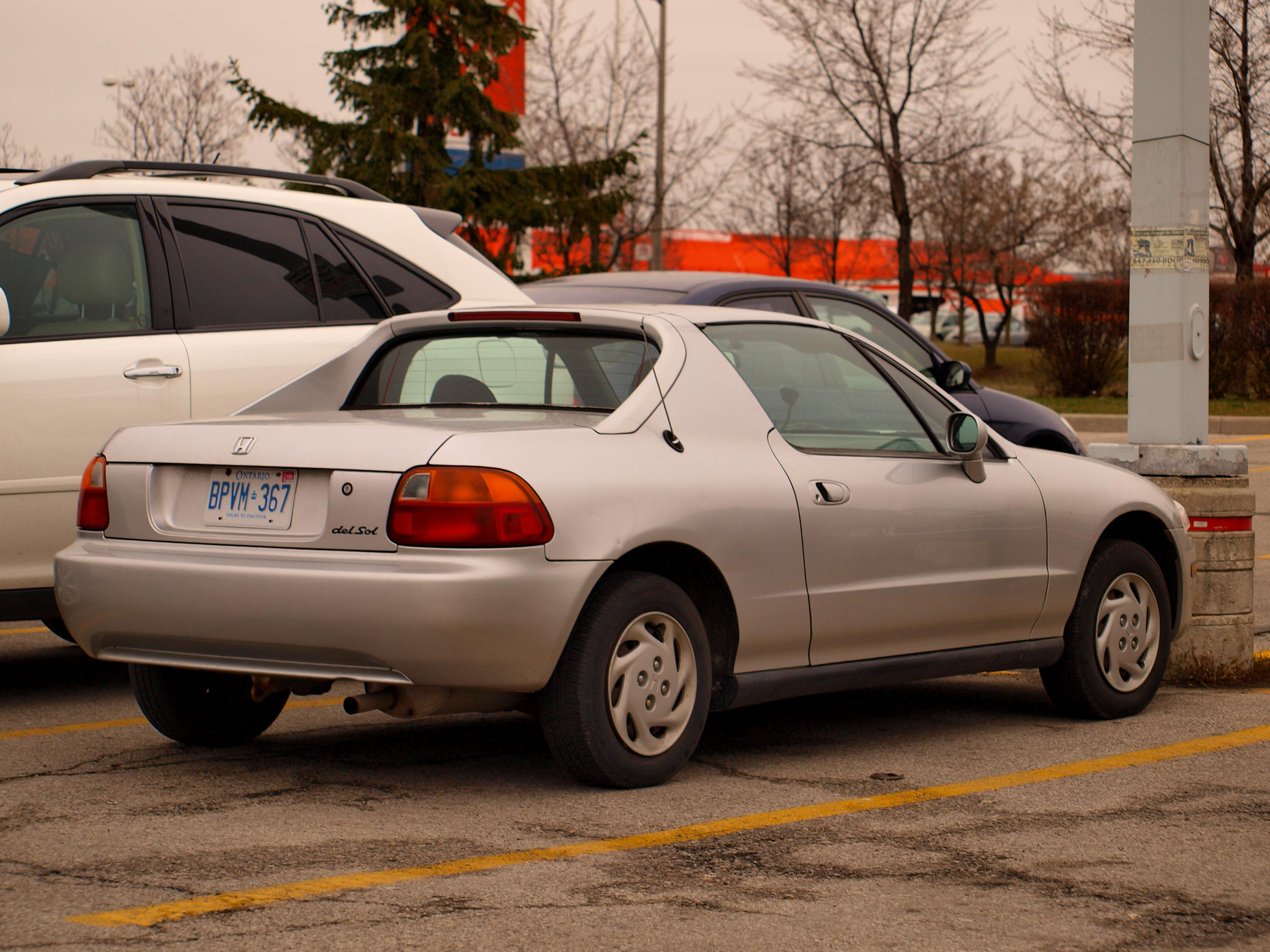 It;s really hard to spot one of these that have not been molested. Really clean!